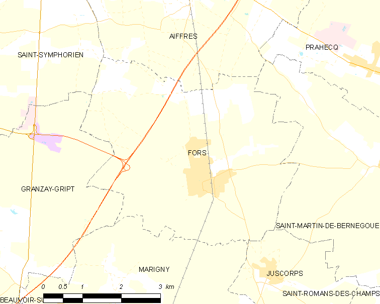 Map of French municipality Fors